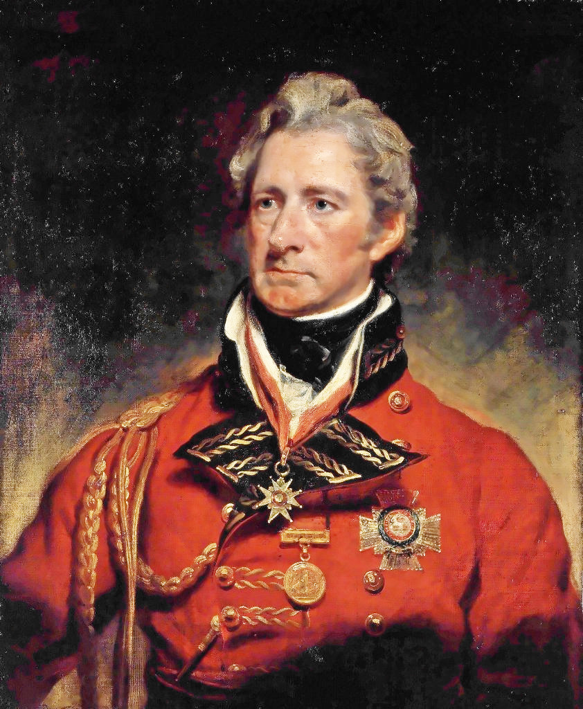 Sir Thomas Munro, 1st Baronet, original author is Sir Martin Archer Shee. The image was retouched by Sanferd Rodrigues